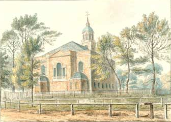 Holy Trinity parish church, Clapham Common, London SW4, seen from the east. "atercolour by unknown artist, 1809